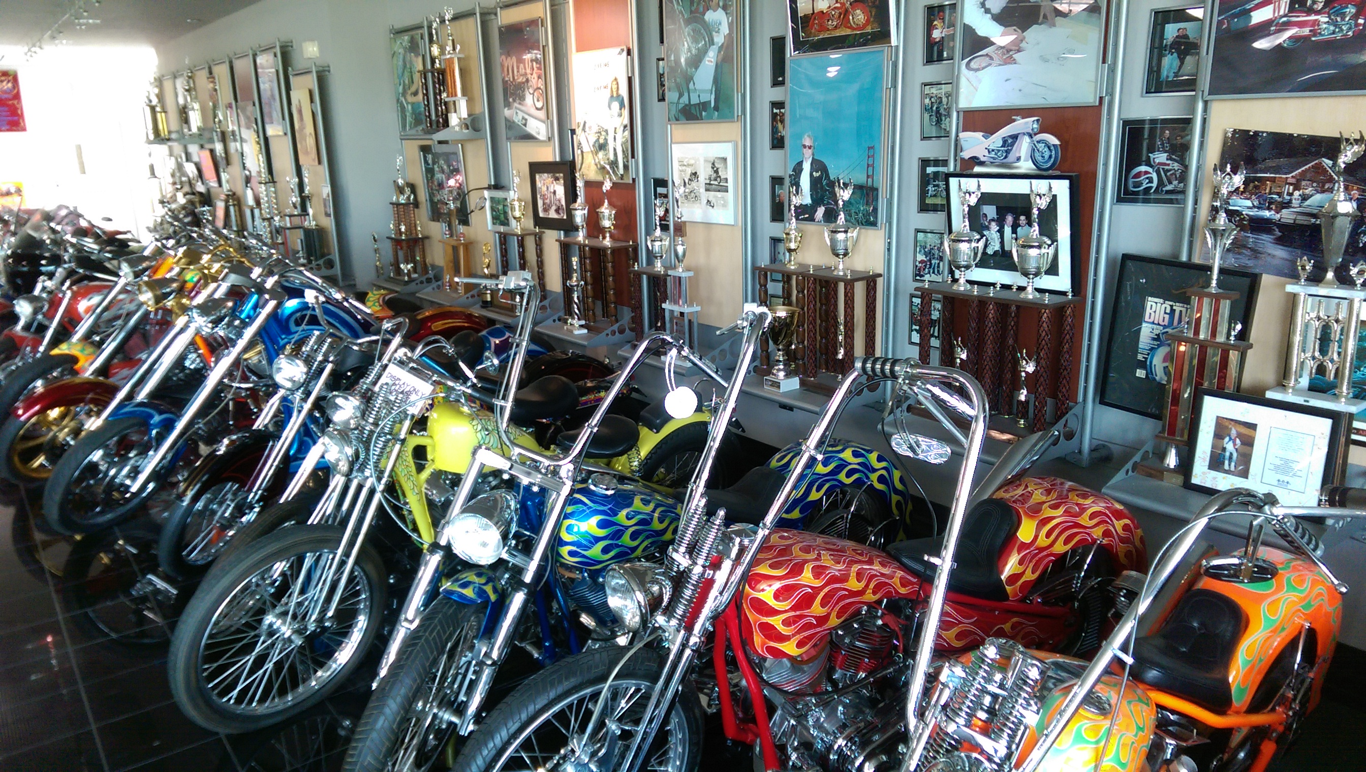 Custom motorcycles designed by Arlen Ness, and some of the trophies he has won. Photo by Jim Heaphy.